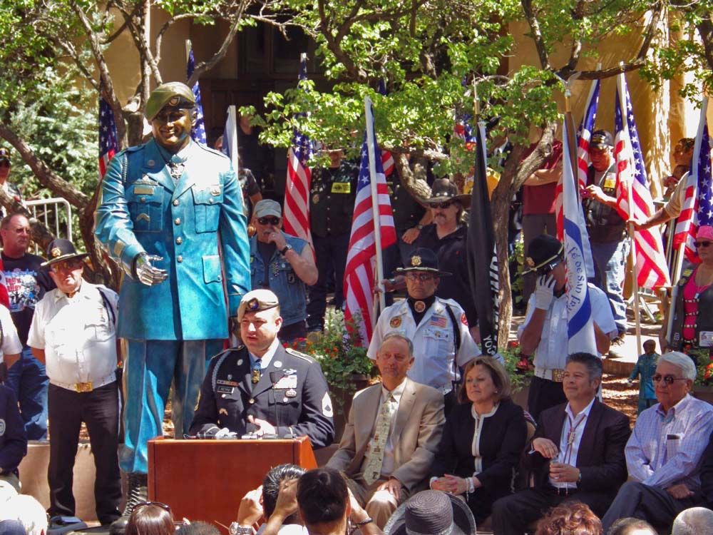 unveiling of statue of Sgt. FC Leroy Petry (pictures) June 24, 2013, Santa Fe , New Mexico, USA. Also pictured, seated to his left, Santa Fe mayor David Coss, New Mexico Governor Suzanna Martinez, and sculptor and governor of Pojoaque Pueblo, George Rivera.